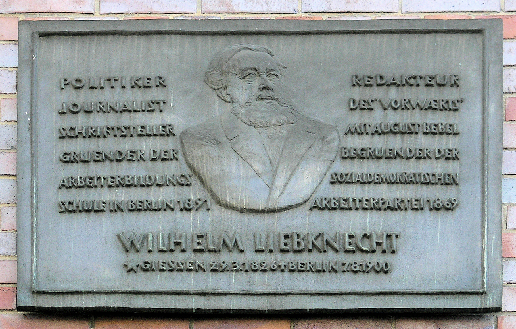 Memorial plaque, Wilhelm Liebknecht, Adalbertstraße 2, Berlin-Kreuzberg, Germany